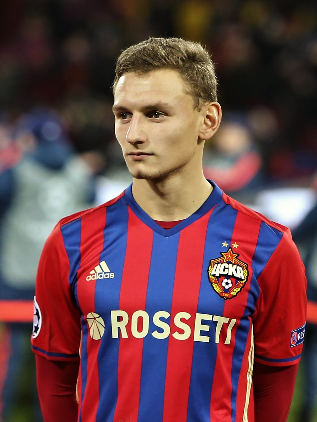 Fyodor Nikolayevich Chalov